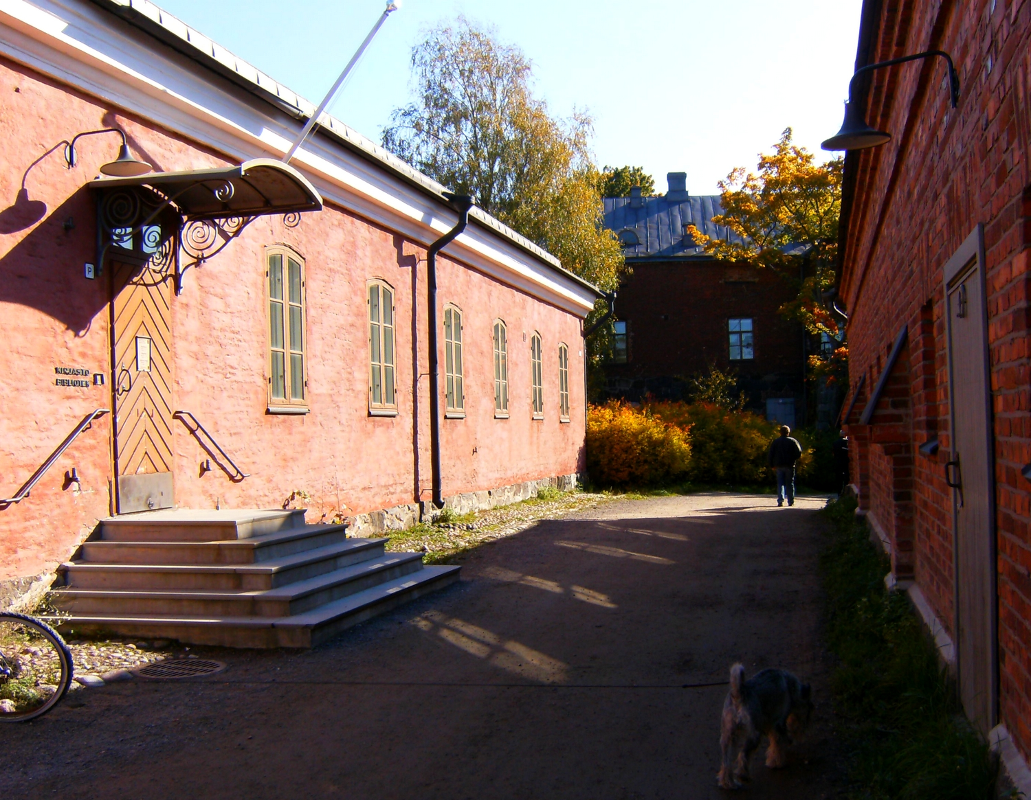 The Suomenlinna Library, Suomenlinna, Helsinki, Finland